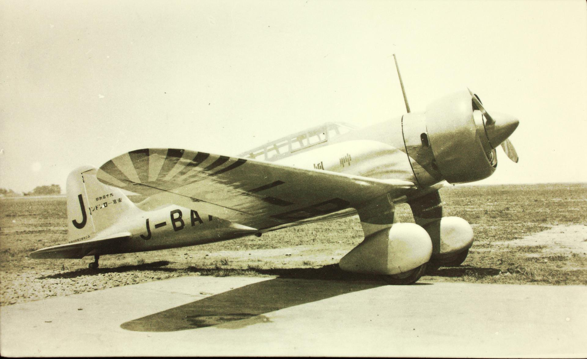 First prototype Mitsubishi Karigane cn 1501